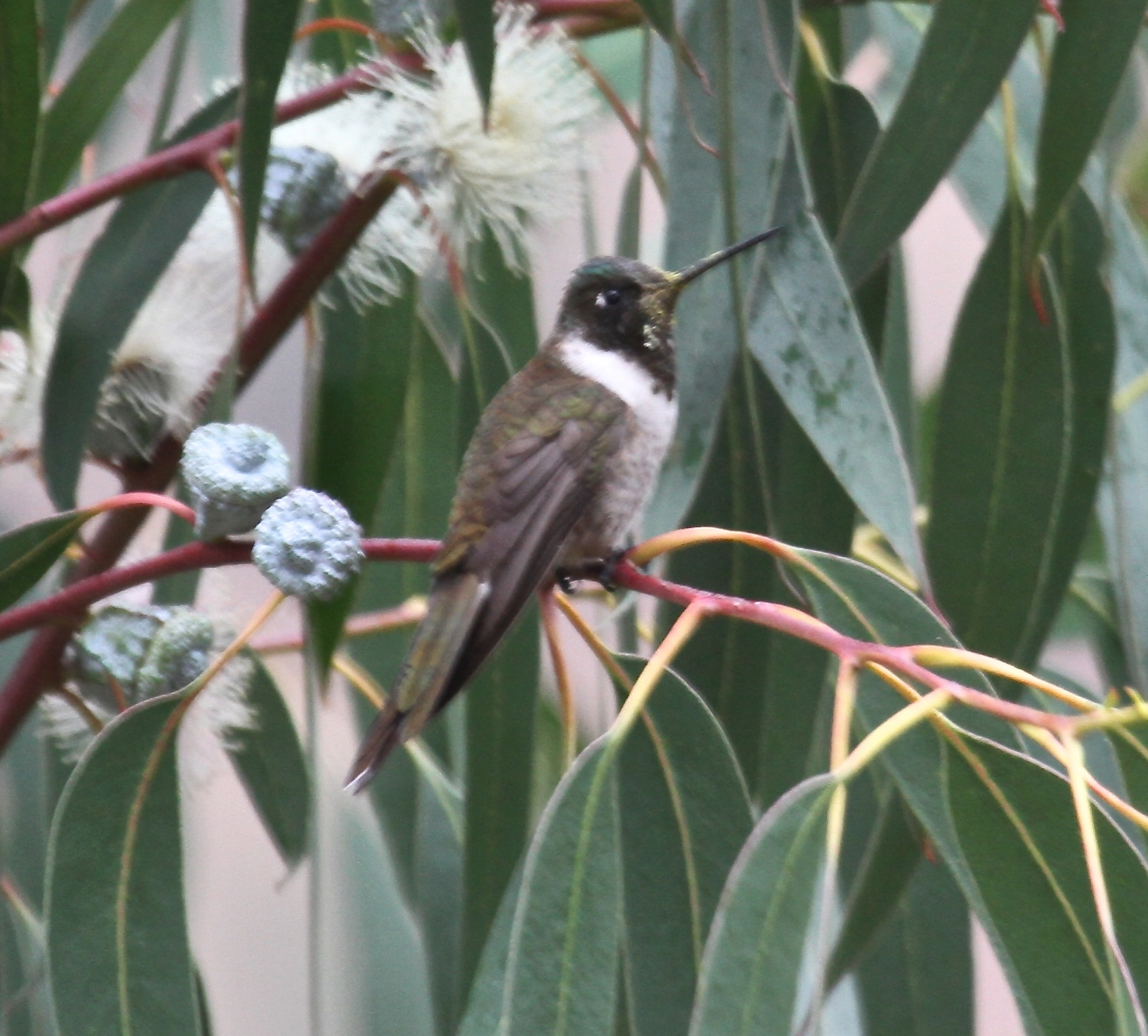 On the road northeast of Cusco